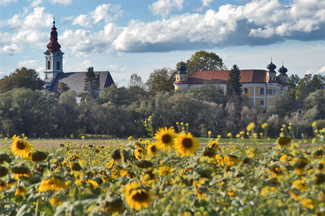 Gleinstätten as seen from the Sulm valley. Left: Parish church Saint Michael, right: Gleinstätten Castle